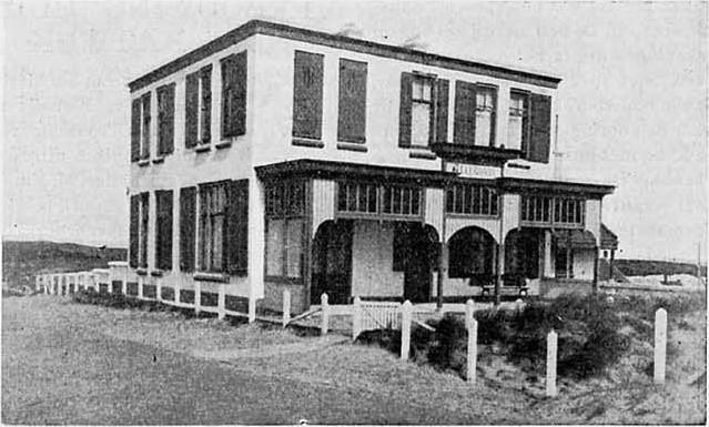 Villa Sigrid (later Villa Allegonda and Savoy Hotel, now Villa Allegonda again (2016)), Boulevard, Katwijk aan Zee. 1899 (construction).